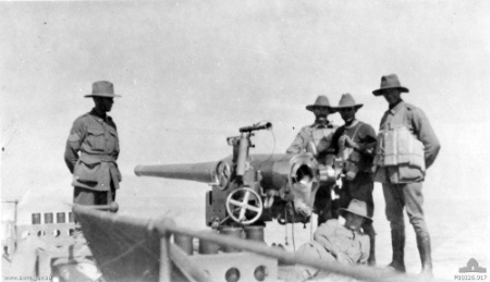 AWM caption : "British 4 inch naval gun, possibly the stern gun on the transport ship SS Ascanius. The soldiers standing beside the gun are possibly members of the 10th Battalion en route from Adelaide to Alexandria in 1914-11". The gun is a QF 4-inch Mk I or III.